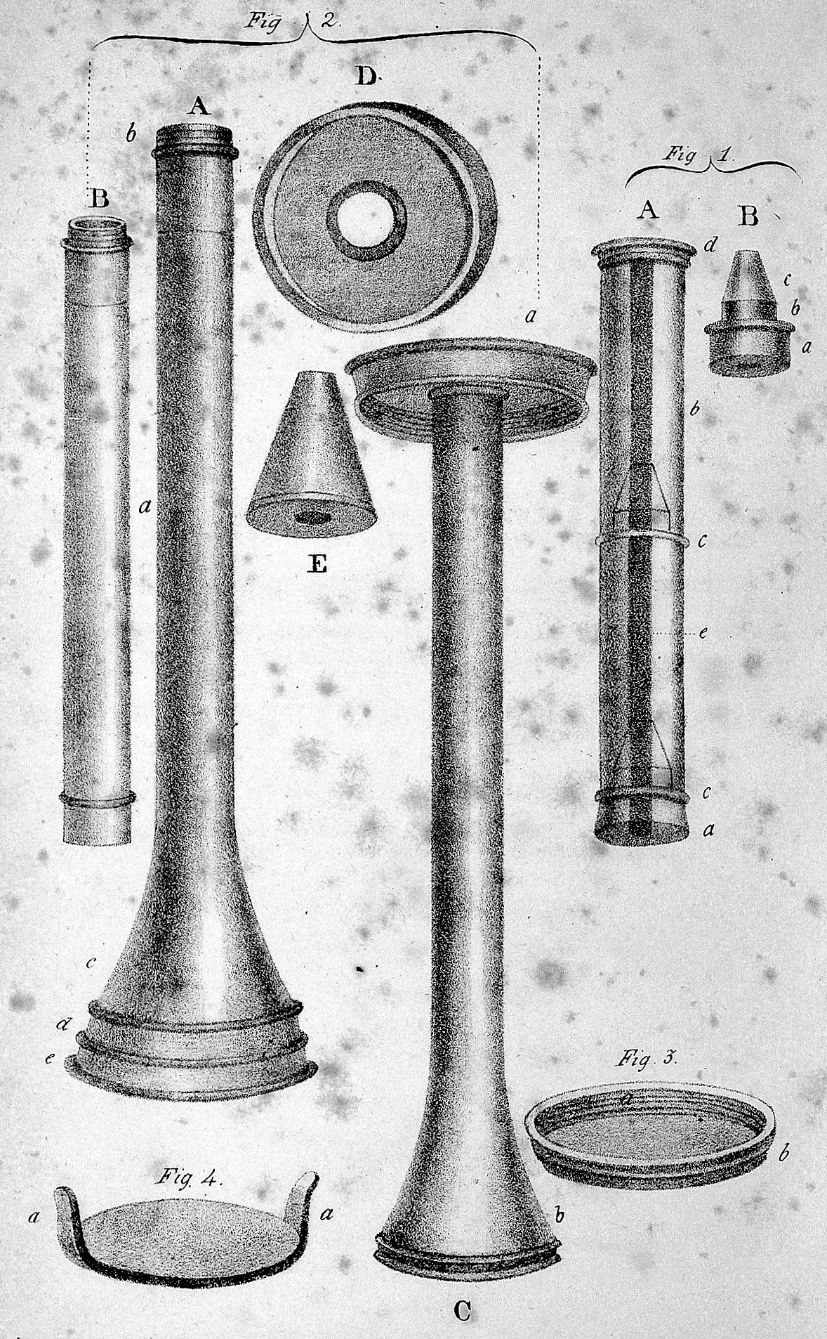 Plate 2. Rare Books